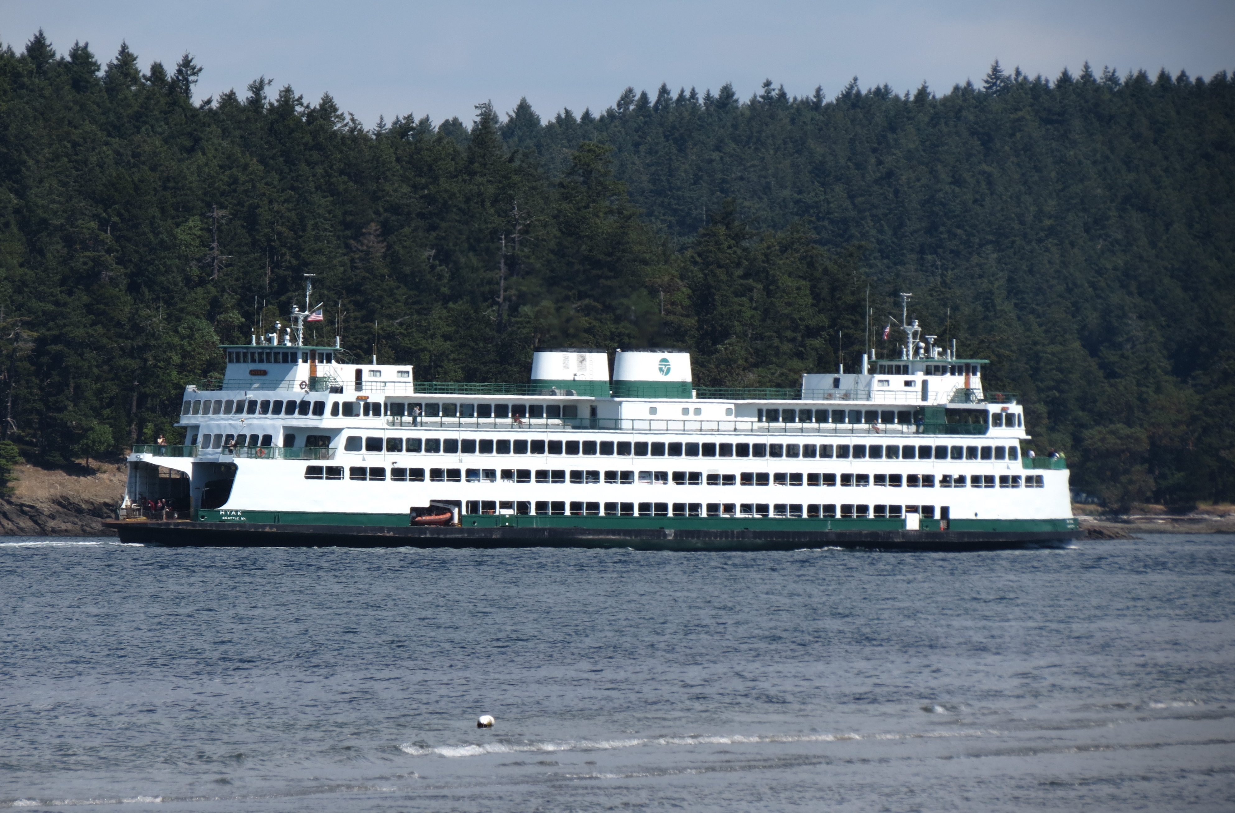 The Washington State ferry Hyak passes Flat Point on Lopez Island.